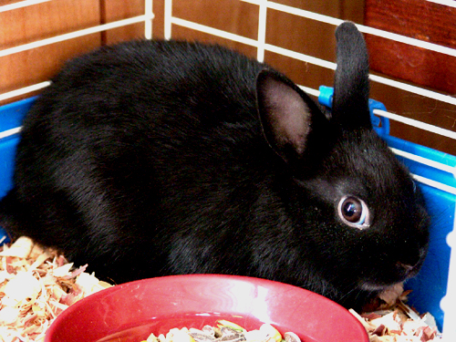 A pure-black Netherland Dwarf rabbit.